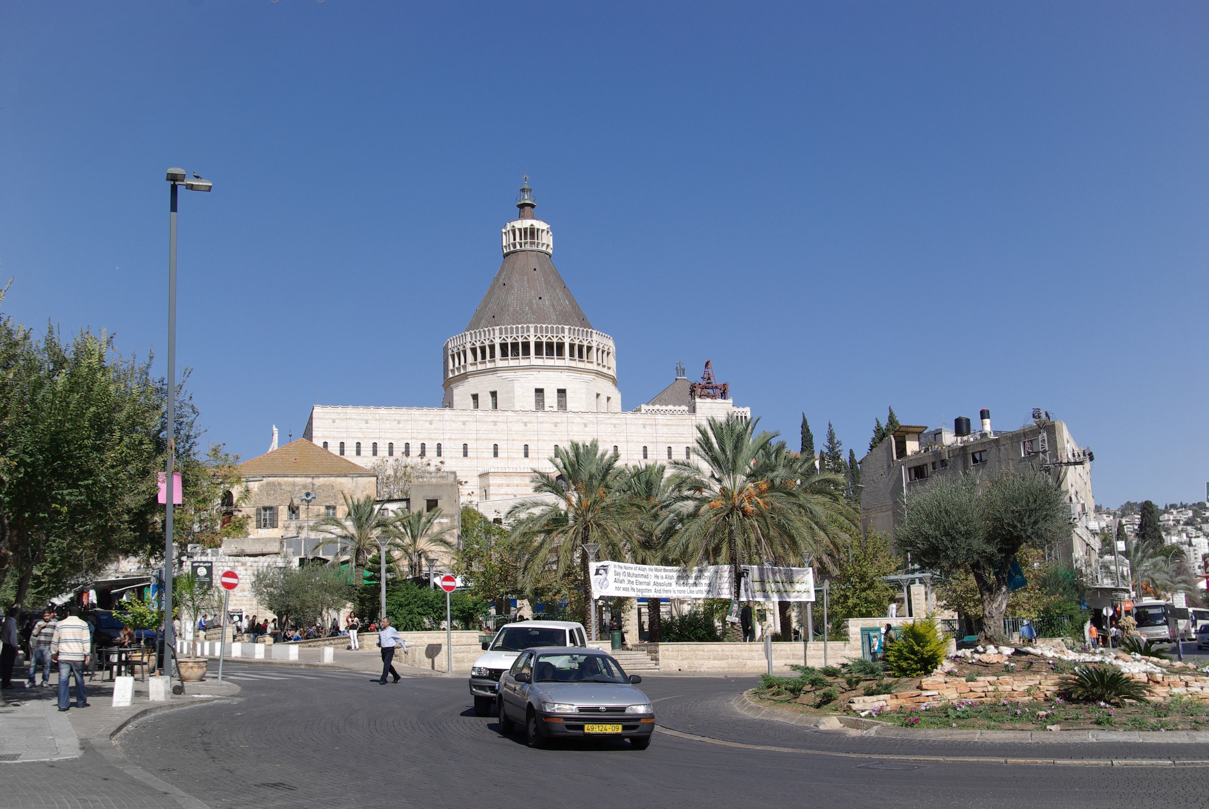 Church of the Annunciation, Nazareth, Israel